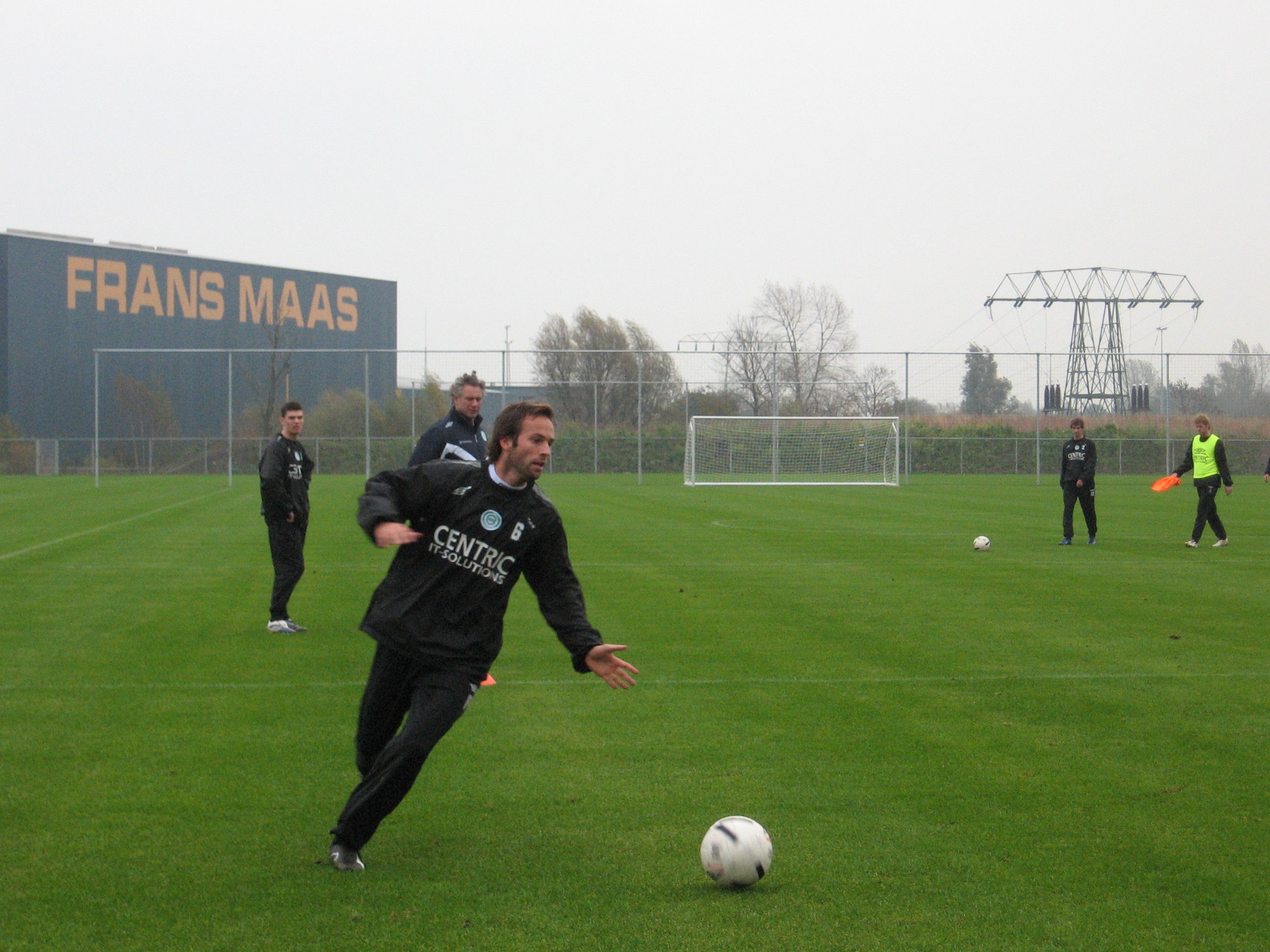 FC Groningen-speler Mathias Florén